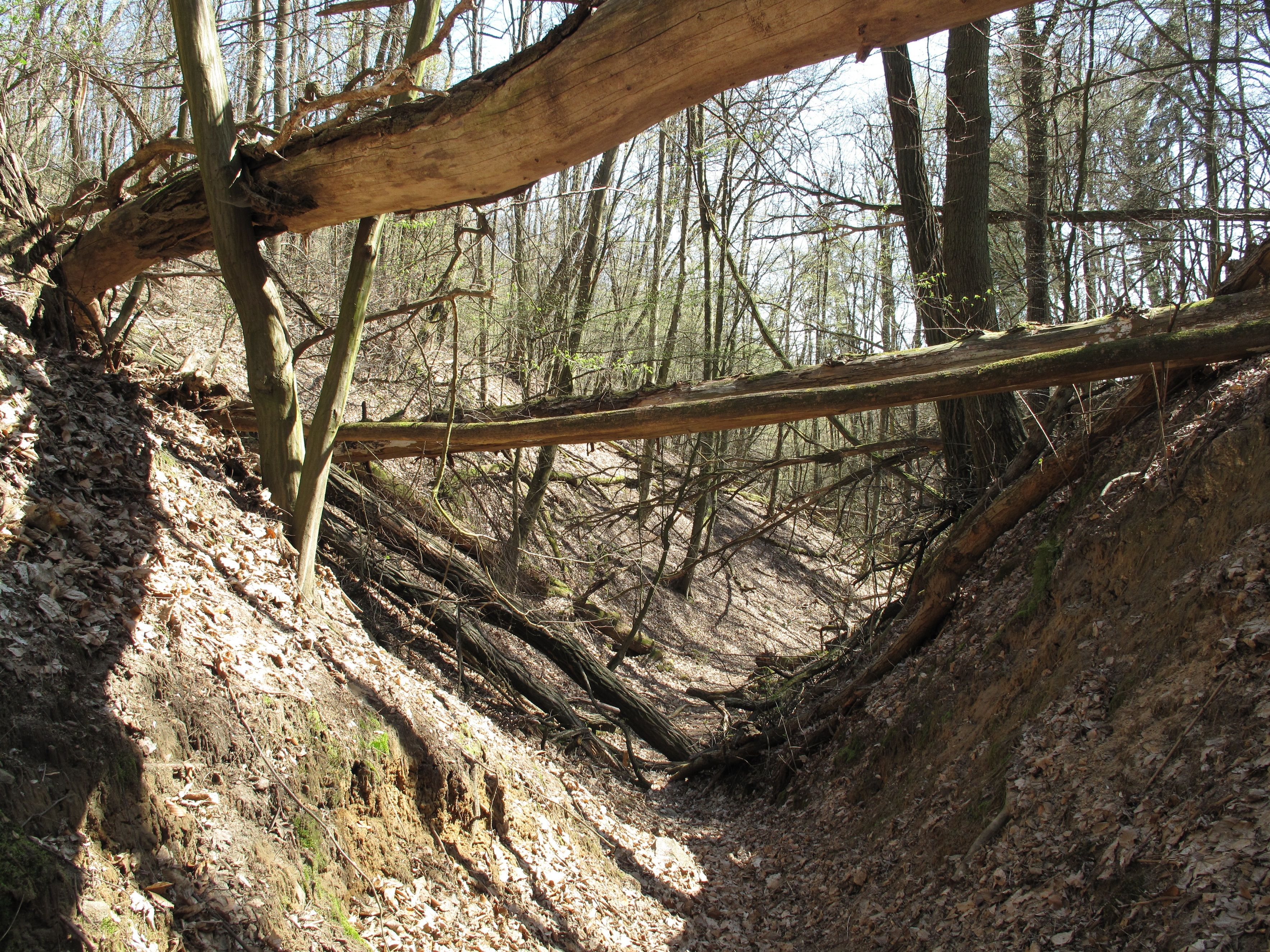 The Wolfsschlucht (german for: Wolves-chine) i a valley in the hill country „Märkische Schweiz“ and in the Märkische Schweiz Nature Park. This specific valley-type is named „Kehle“ in the Märkische Schweiz. It is situated in Pritzhagen, a village of the municipality Oberbarnim in the District Märkisch-Oderland, Brandenburg, Germany.